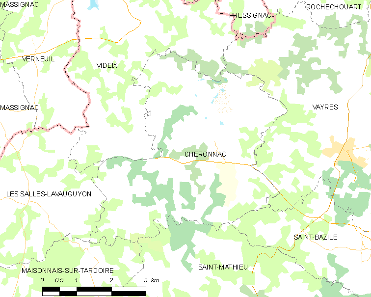 Map of French municipality Chéronnac